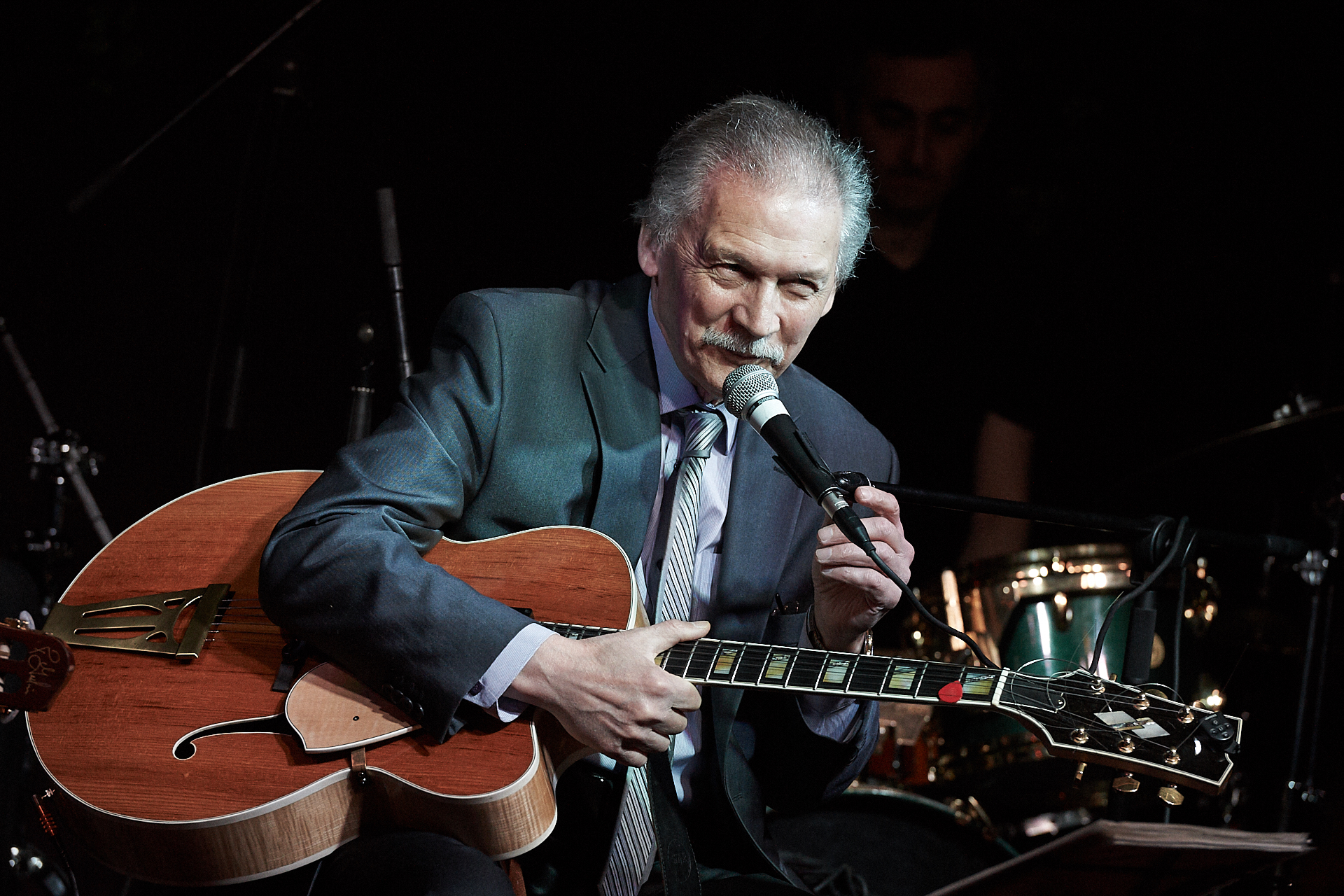 Alexey Kuznetsov in Alexey Kozlov Club (2018-05-01)